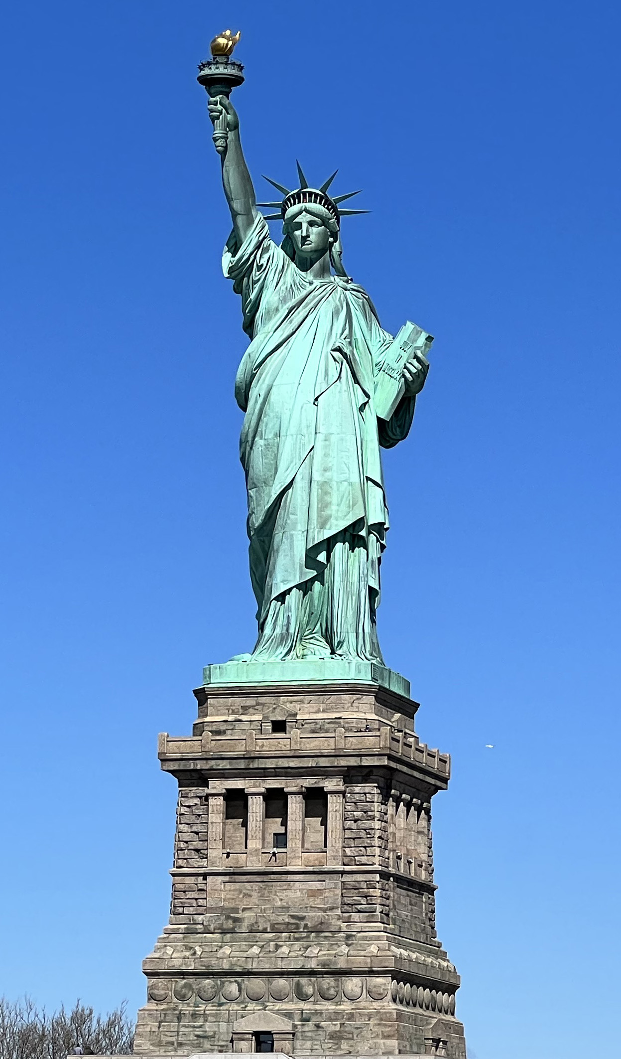 Statue of Liberty